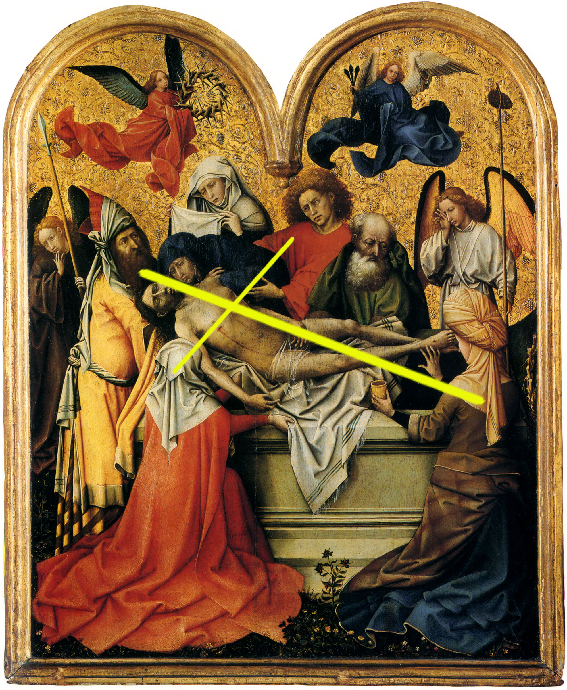 Triptych with the Entombment of Christ Oil on panel, 60 x 48.9 cm (central panel without frame), 60 x 22.5 cm (wing without frame) London, Courauld Institute Galleries